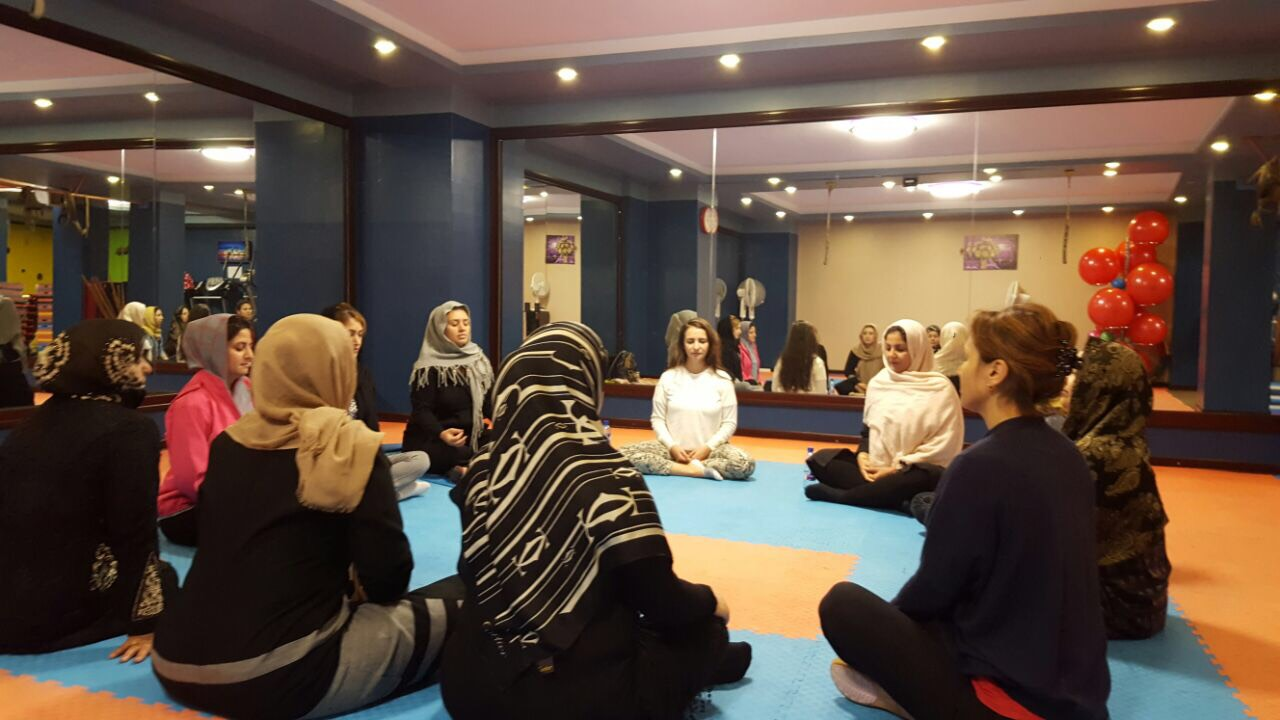 Free image from Peace on Demand Iran event 2016